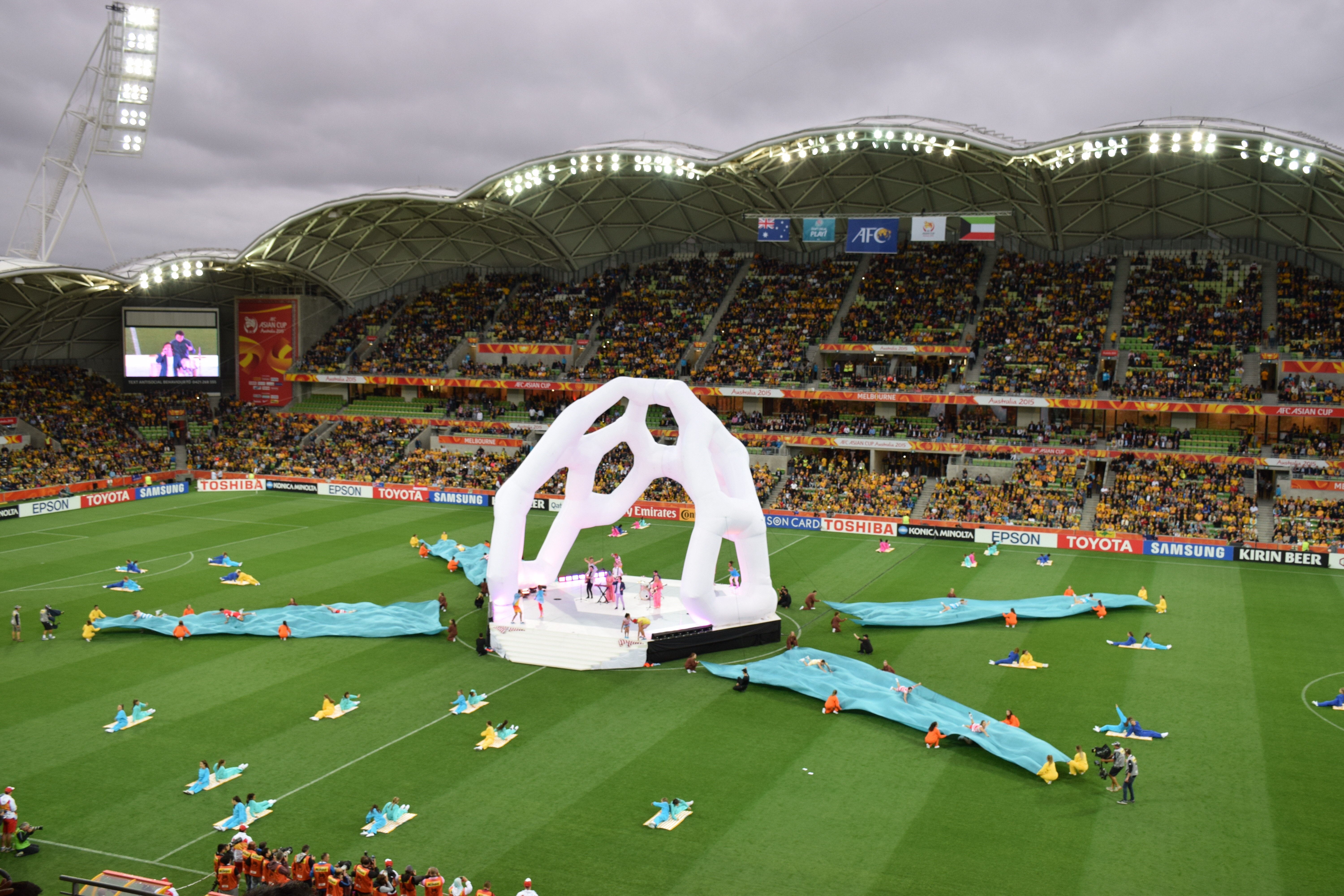 Opening game - Australia v Kuwait at Melbourne Rectangular Stadium